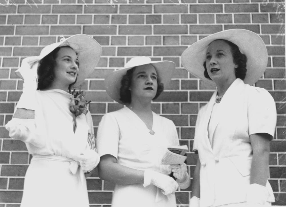 Sisters Molly, Jessie and Nancy Simpson at the Ascot races, Brisbane, 1939